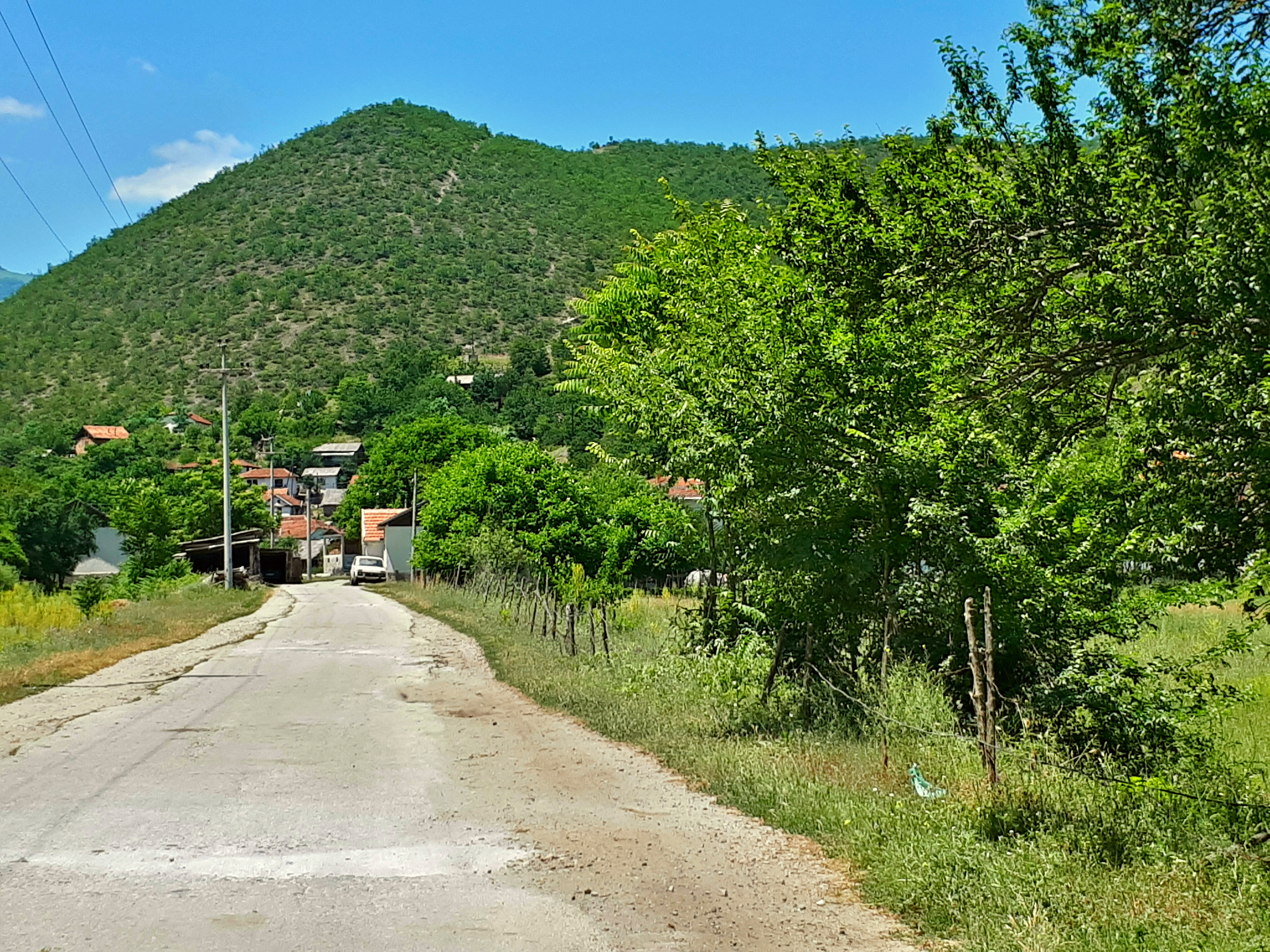 Street in the village Dolni Manastirec